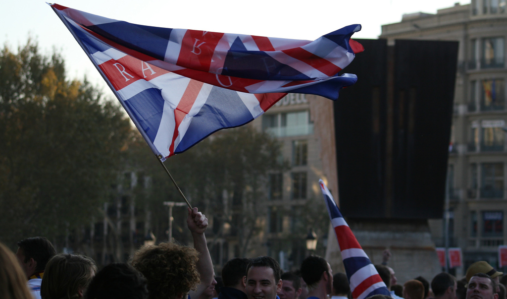 Union Flag proudly waved by Rangers FC fan on a trip to Barcelona, Spain in November last year.